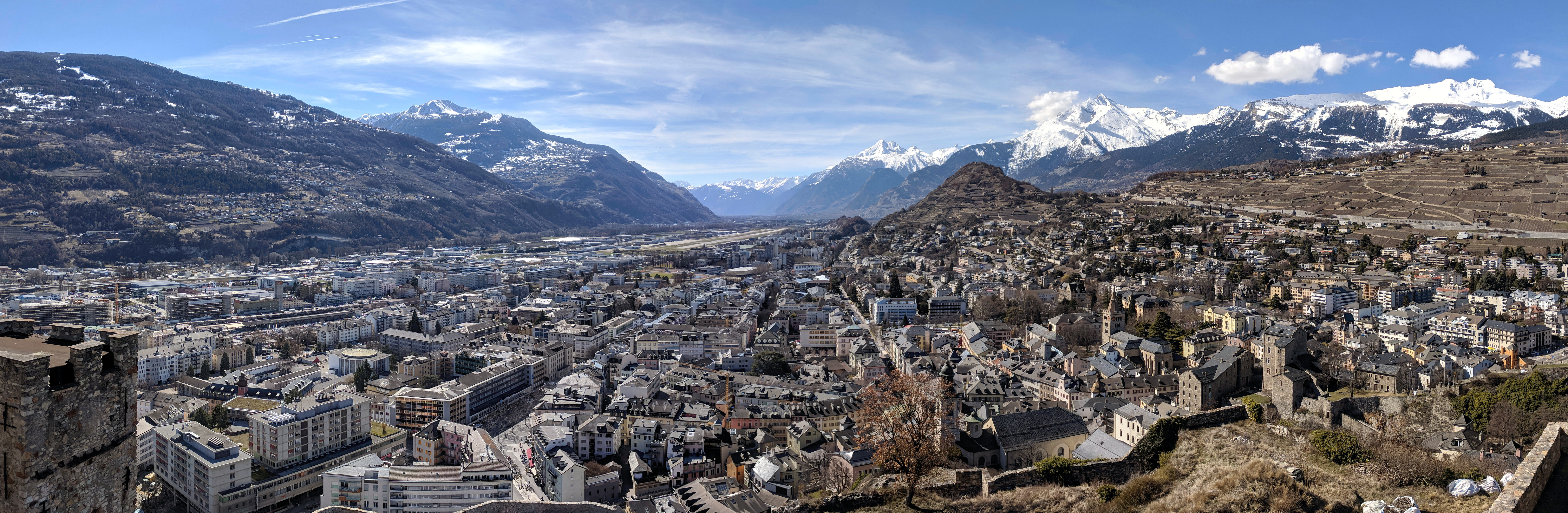 Sion panorama from Valère